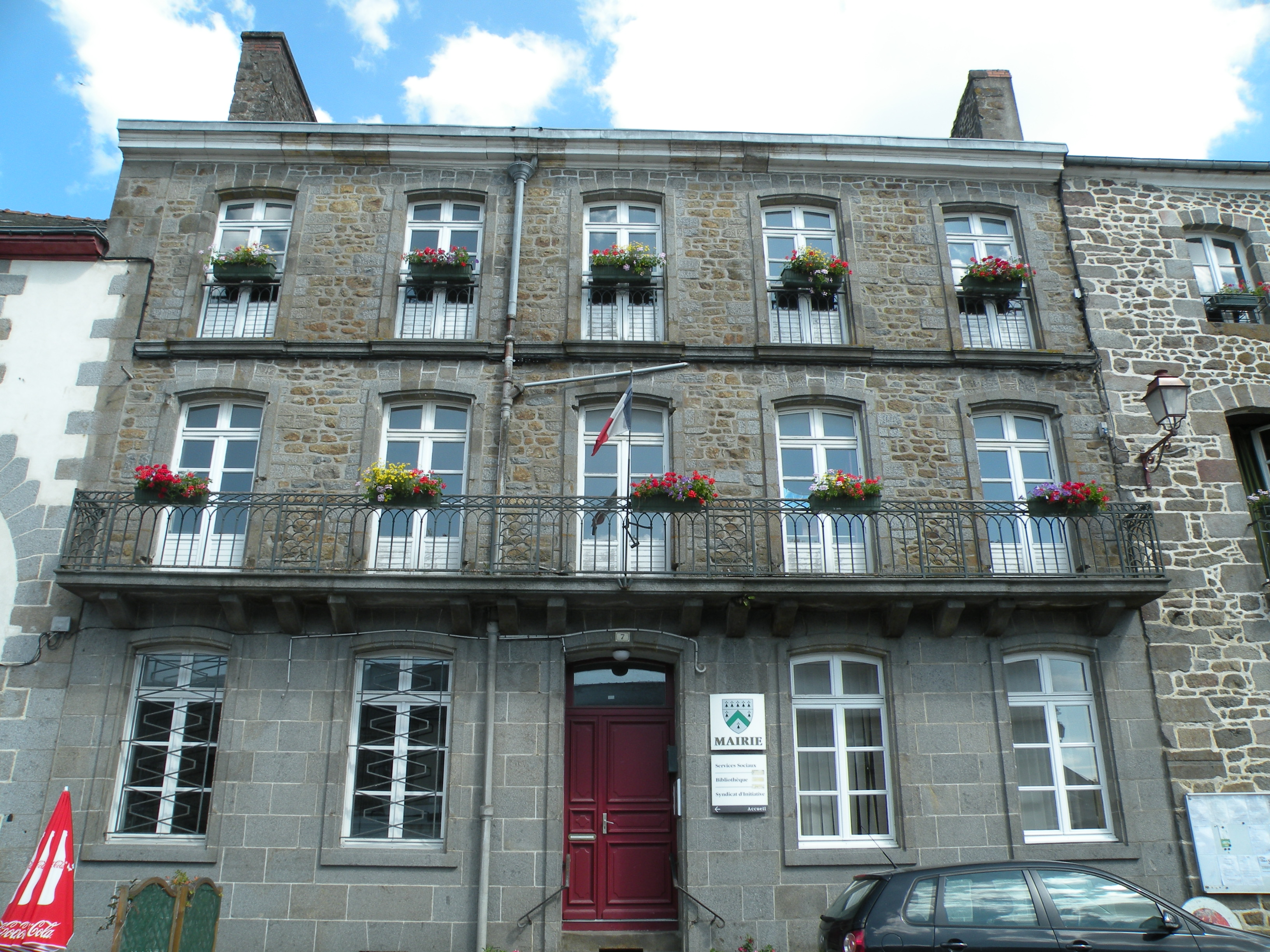 Town hall of Hédé.